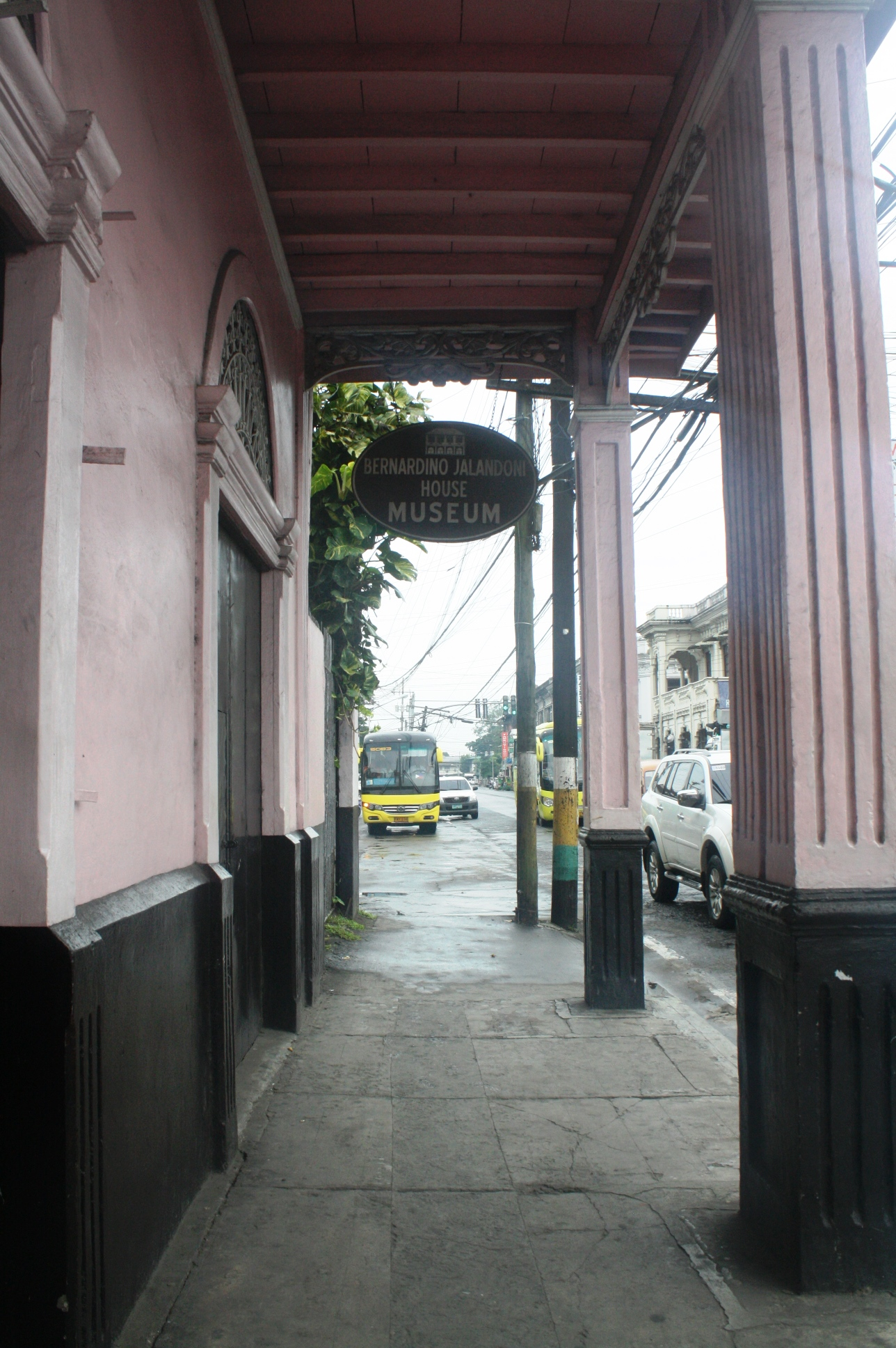 The posts of the Bernardino Jalandoni Museum along the sidewalk.